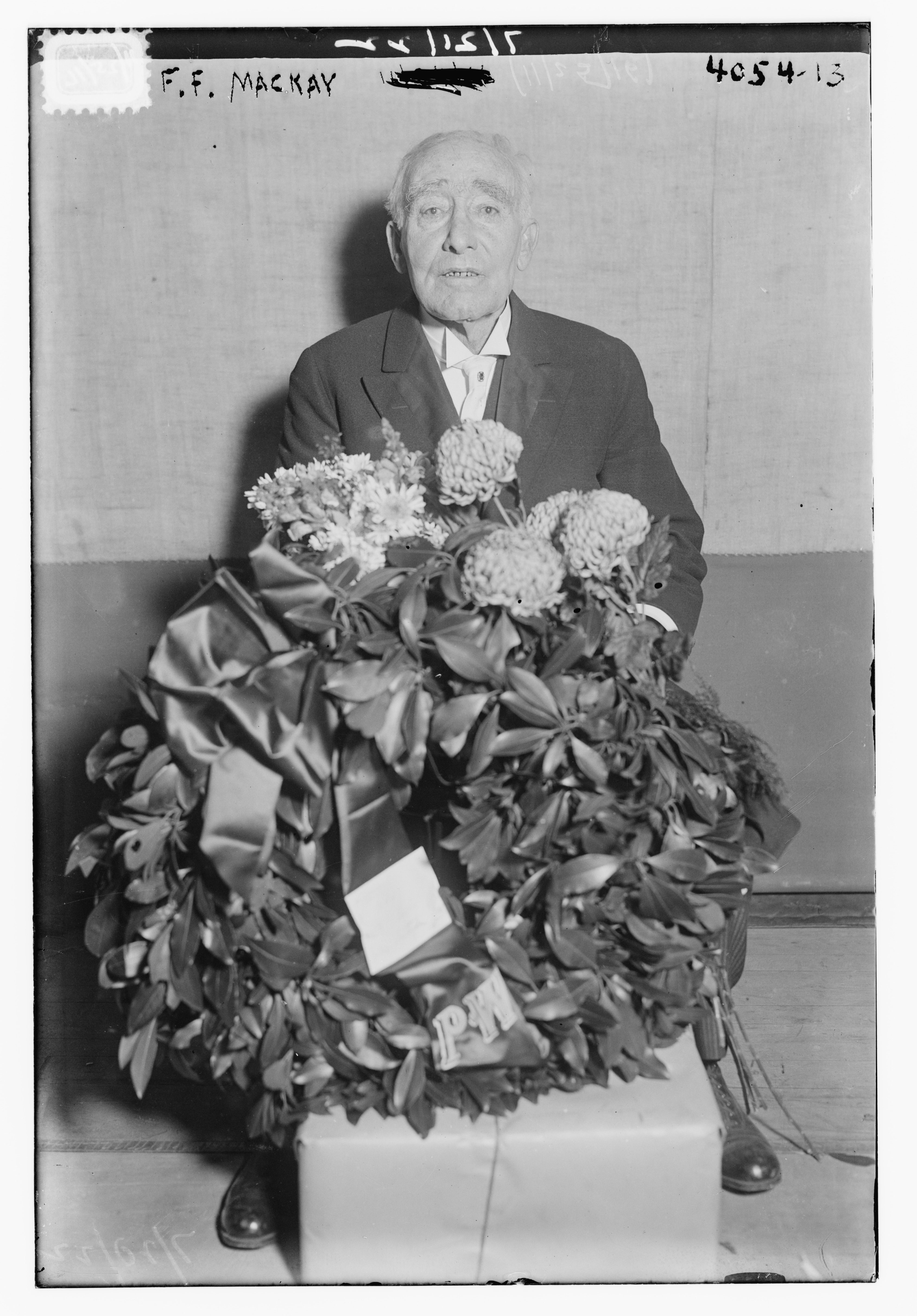 Frank Findley Mackay in 1916